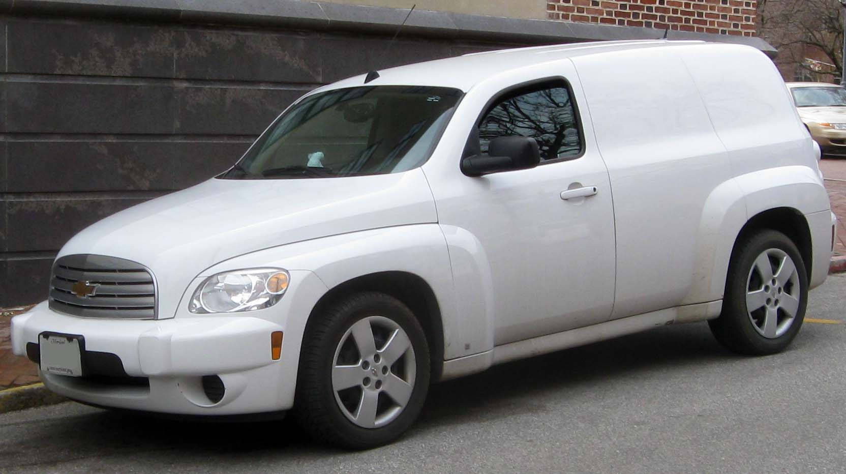 Chevrolet HHR photographed in Annapolis, Maryland, USA.